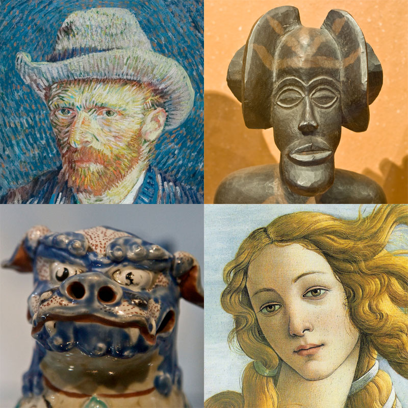 Montage of faces from different types of art.